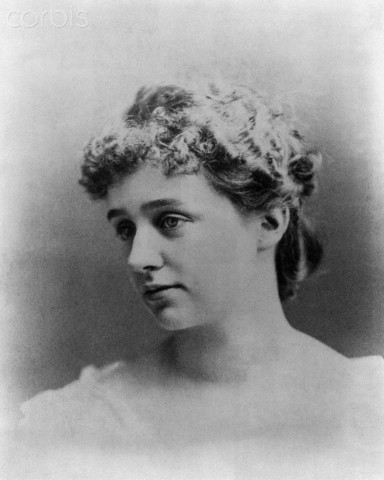 Picture of First Lady Eleanor Roosevelt's mother